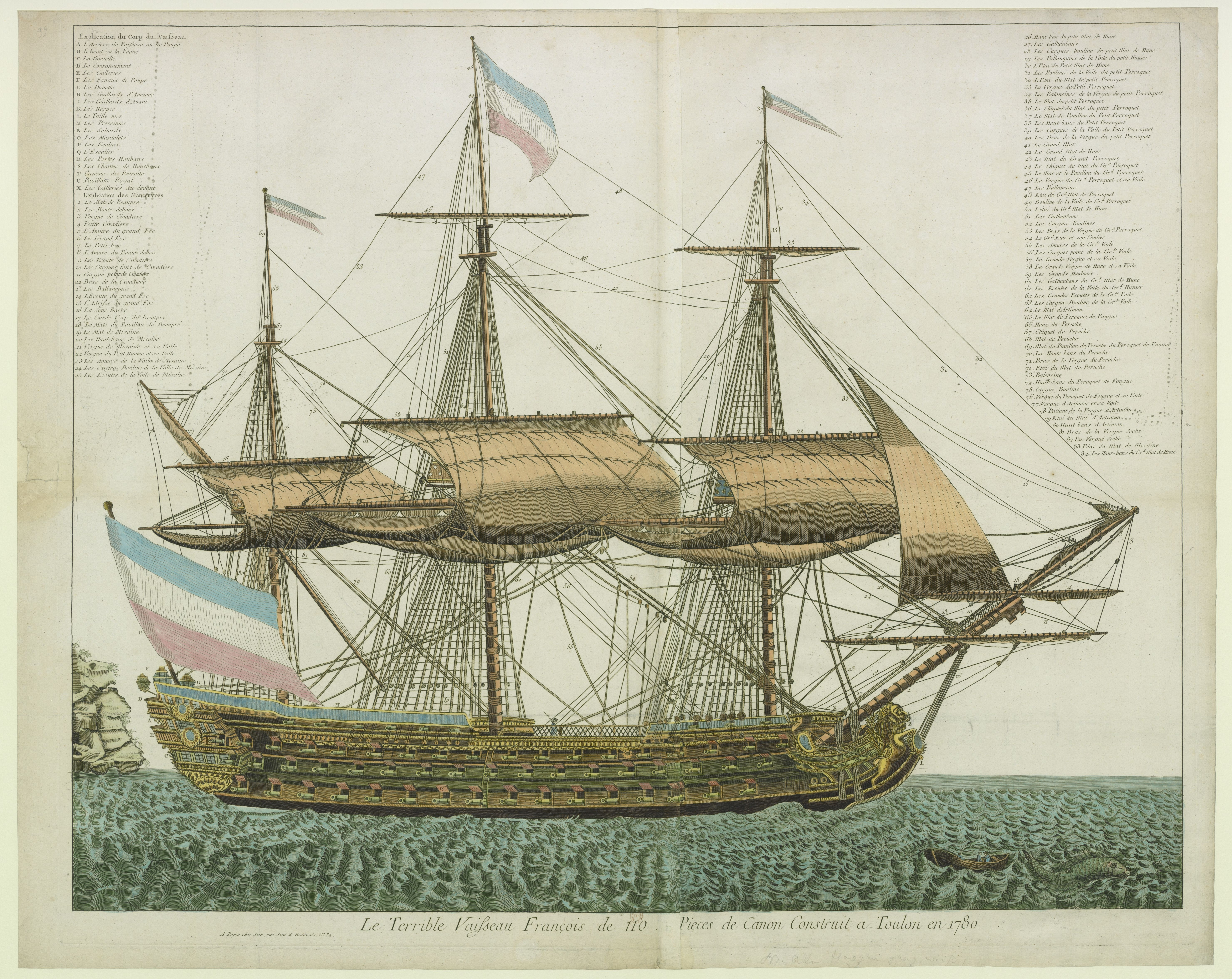 Terrible